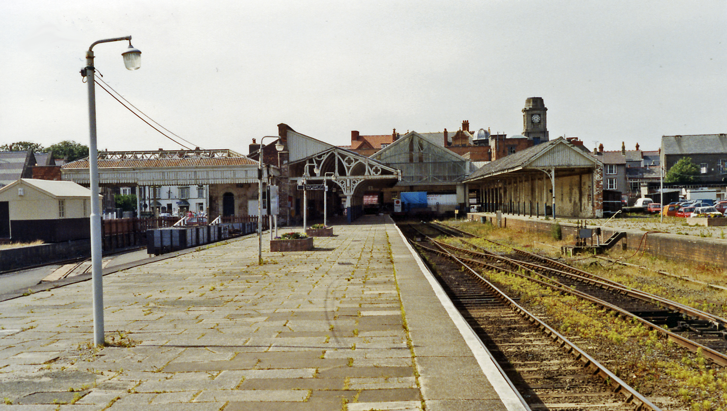 Aberystwyth station, platform view 1992 View NW to the buffer-stops (cf. SN5881 : Aberystwyth station, main exterior). This is a rather different and realistic view of Aberystwyth station in modern days. The main line trains use the platform on the right, the Vale of Rheidol trains, which until 4/68 had their own terminus off to the left, use the platform on the left.